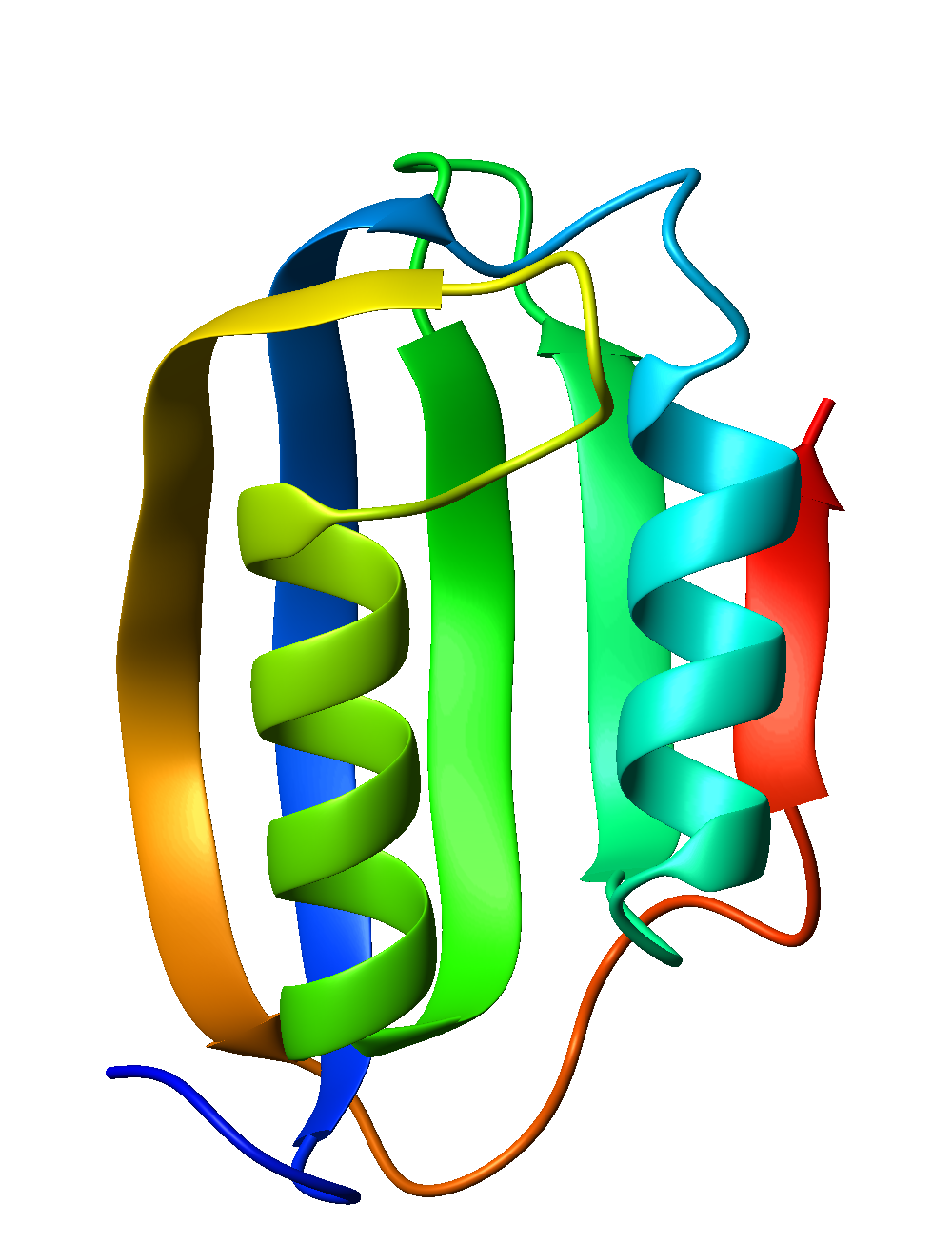 Ribbon diagram of acylphosphatase (PDB accession code 2ACY), which adopts a ferredoxin fold. Made with MOLMOL.